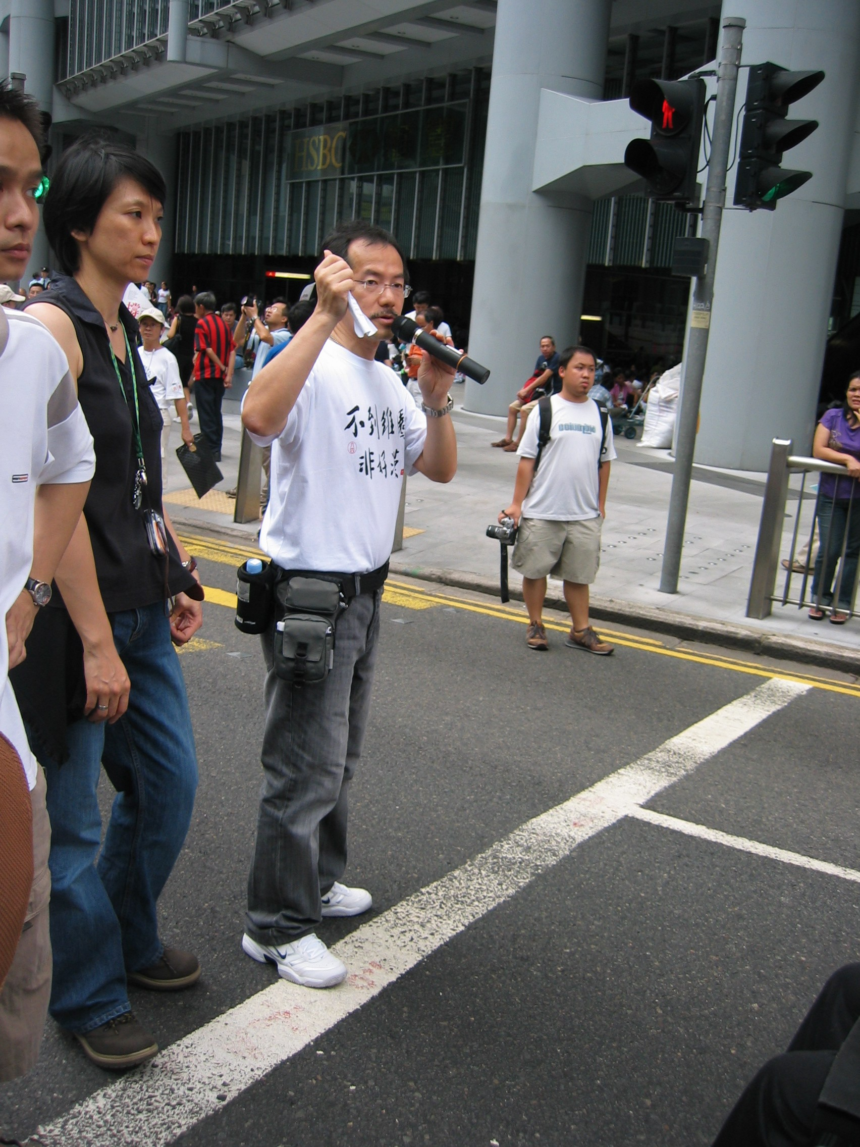 張超雄出席2007年七一大遊行的相片(Fernando Cheung in the Hong Kong 2007 July 1 marches)